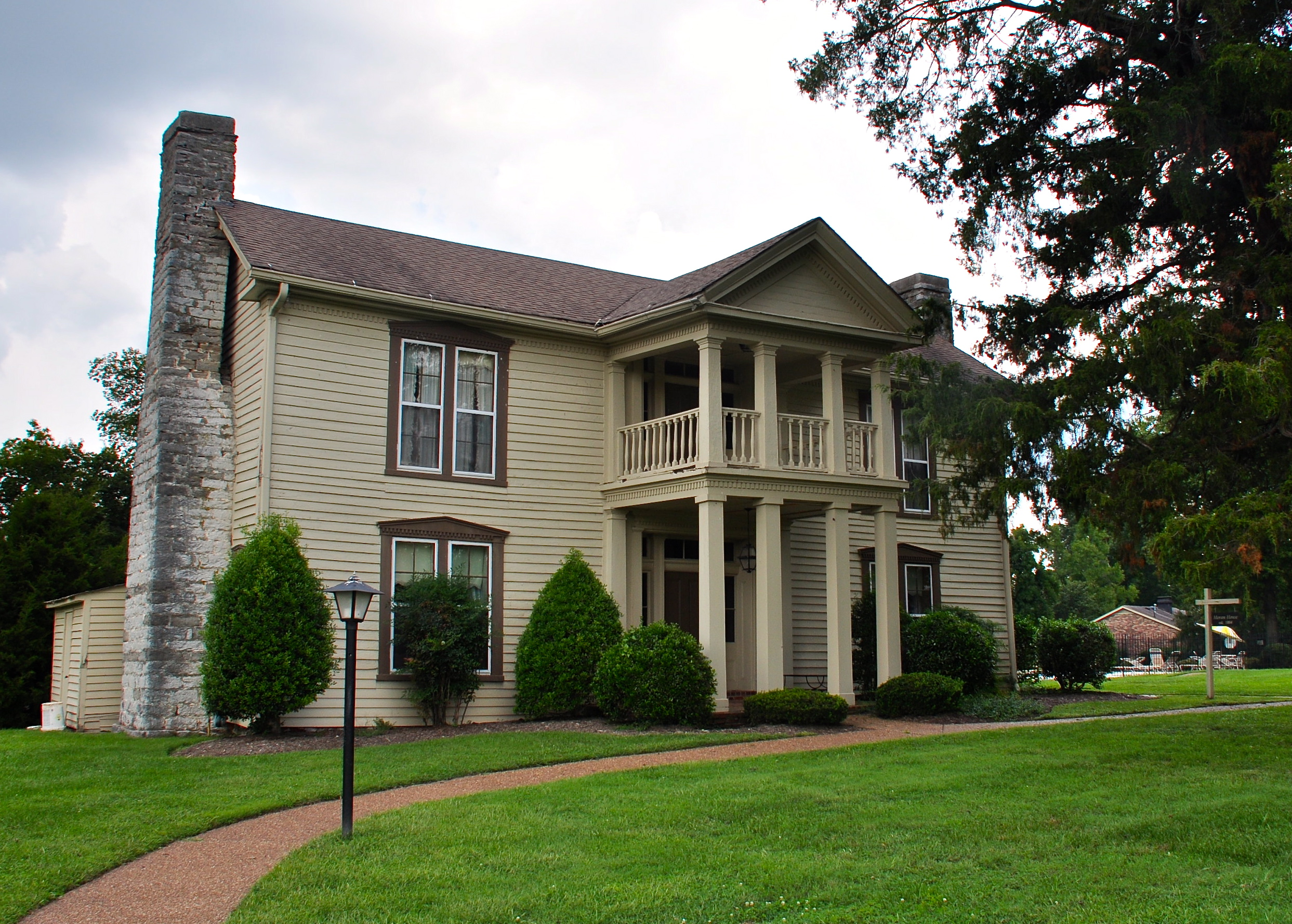 William Leaton House, Hillsboro Rd./U.S. Route 431 at Manely Ln. Franklin